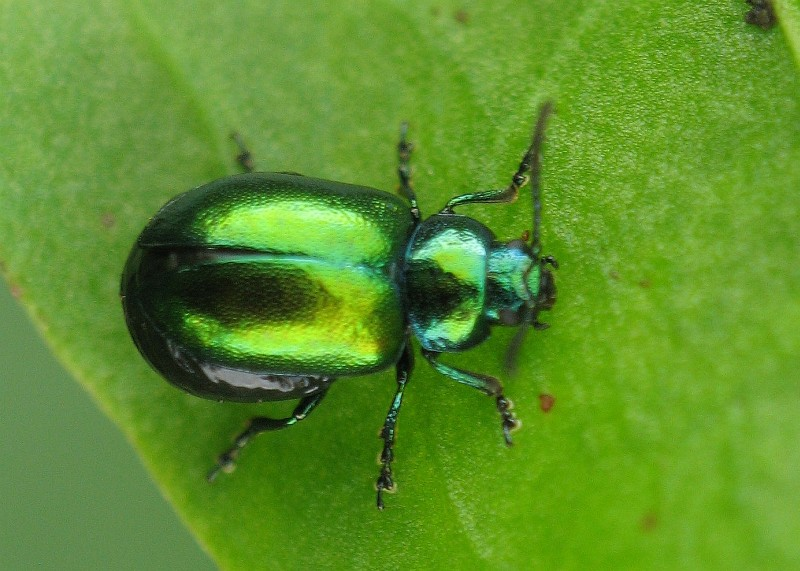 Gastrophysa viridula, Location Zgierz (Słupsk County, Pomeranian Voivodeship, Poland)